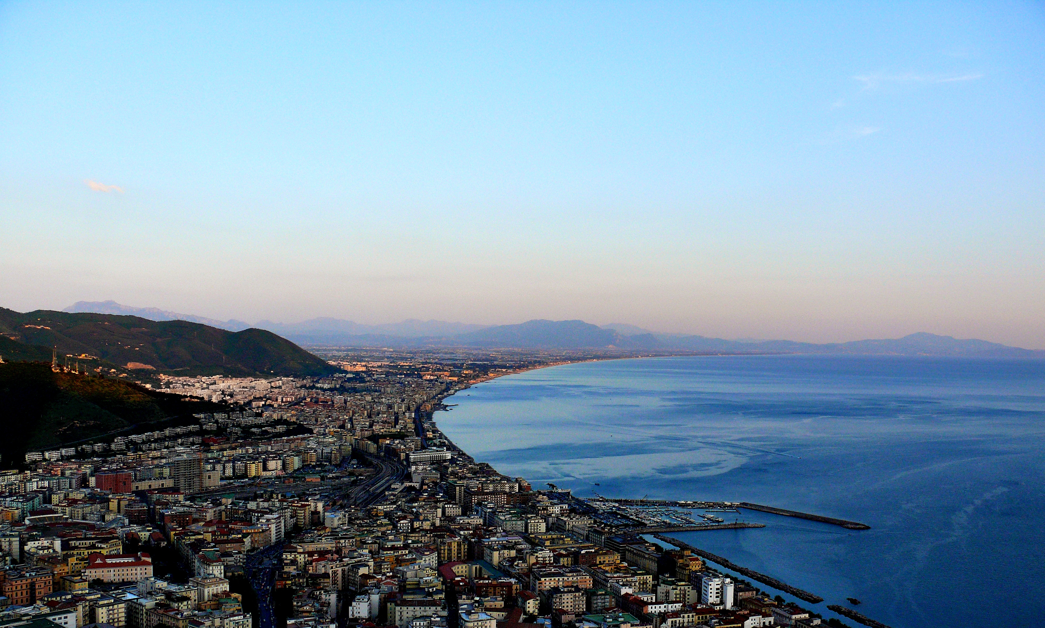 Sunset Panorama of Salerno, Italy